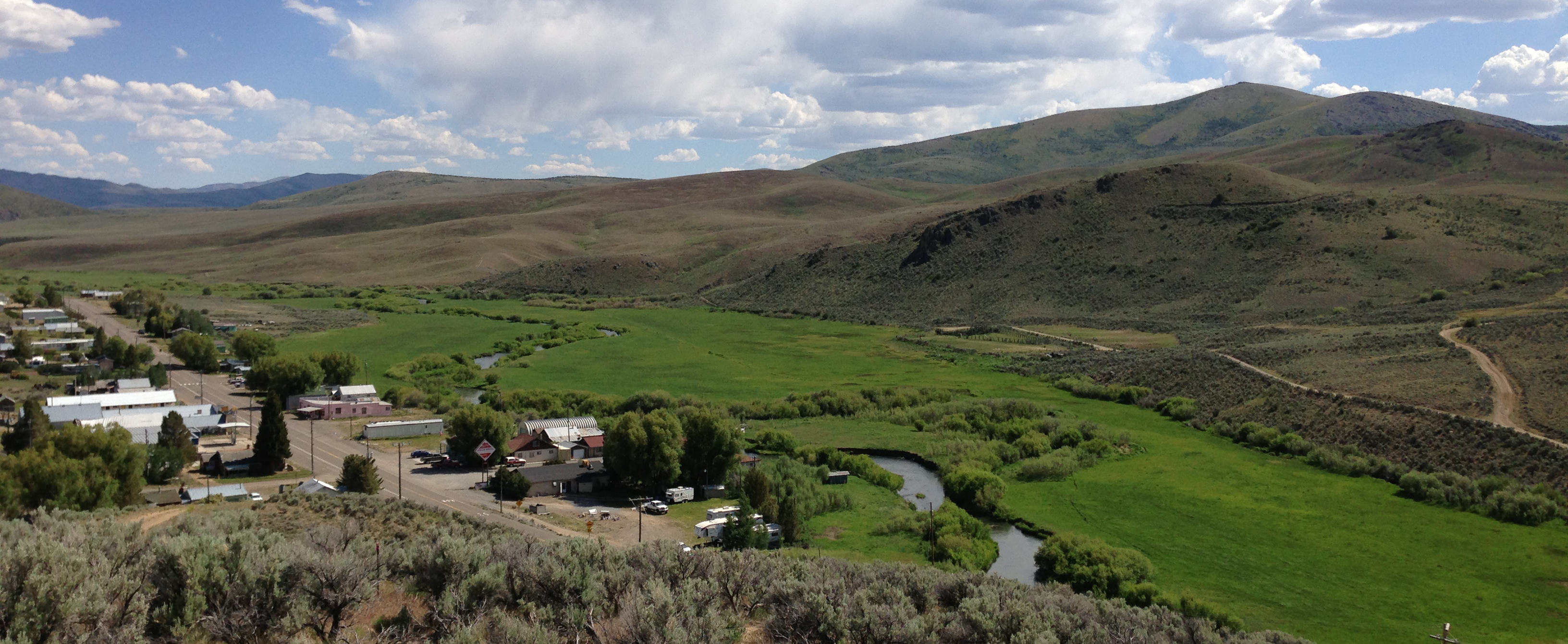 View south across the Owyhee River as it flows past Mountain City, Nevada and Nevada State Route 225